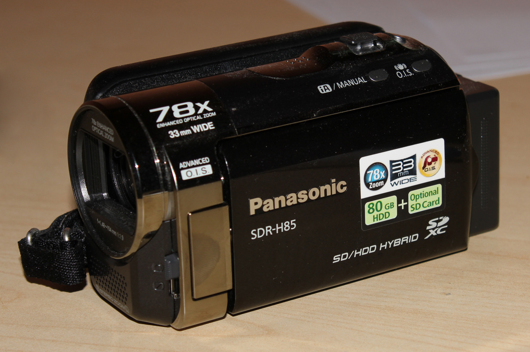 Panasonic 78×optical zoom camcorder.